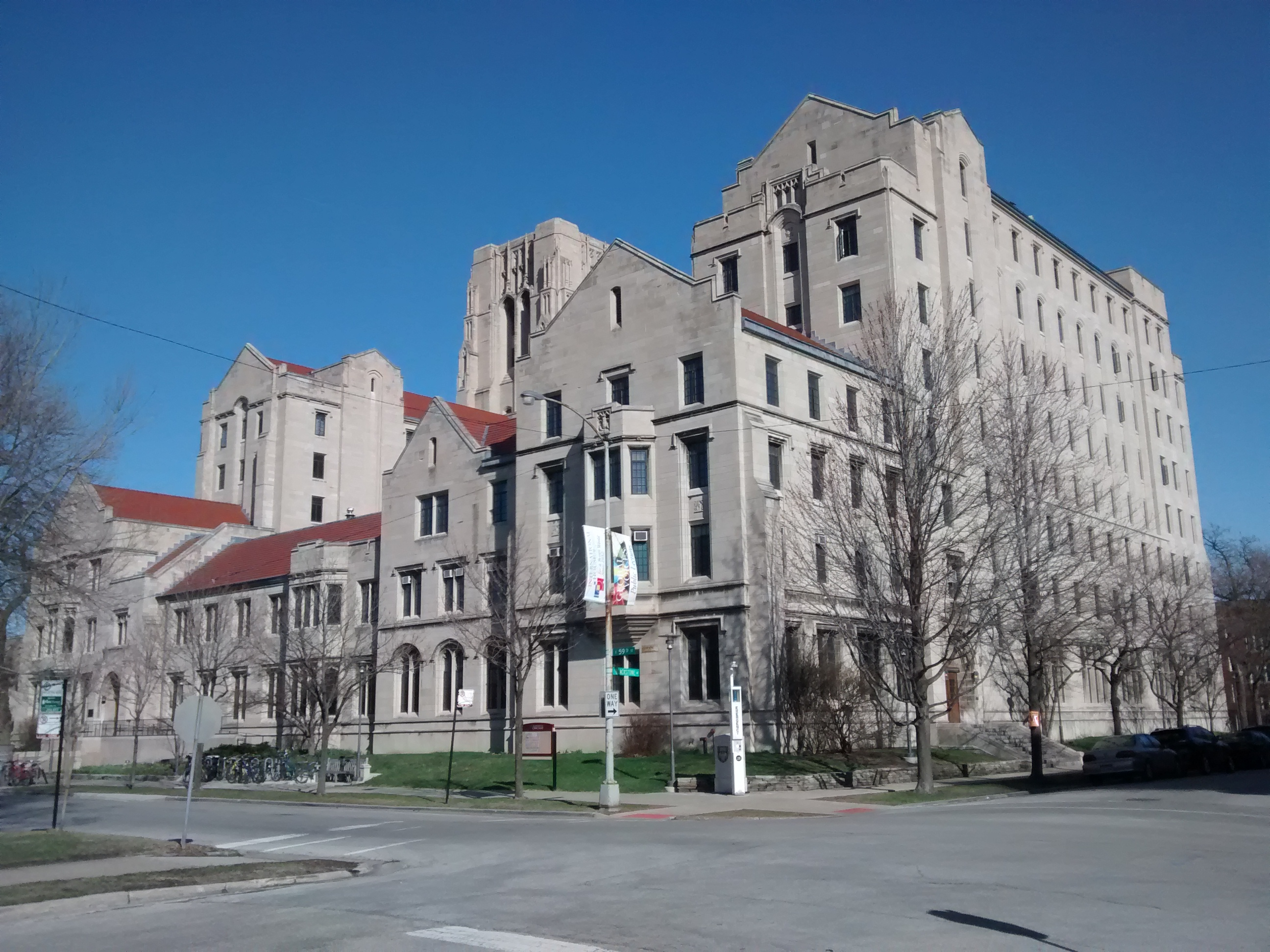 The International House of Chicago in April 2015.